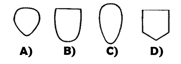 Frontal facial contours (schematically):A) Shortened egg-shape B) Broad shield-shapeC) Steep egg-shapeD) Flat five-corned.